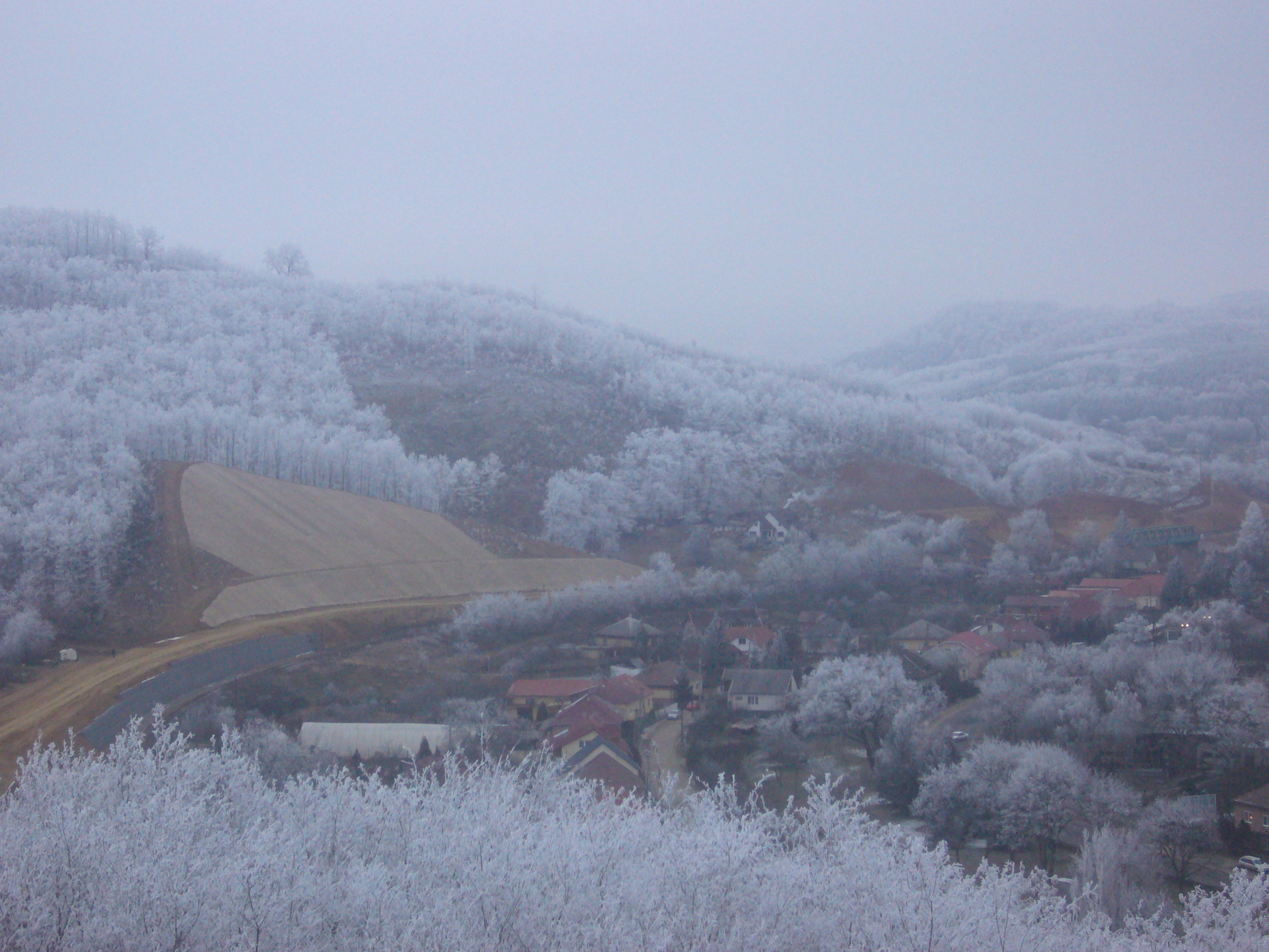 Hoar the Salgótarján countryside mount in Winter